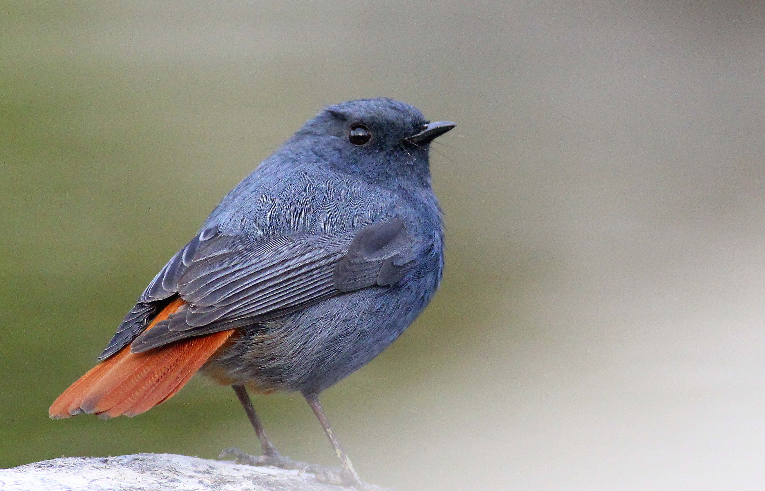 This bird is so pretty.